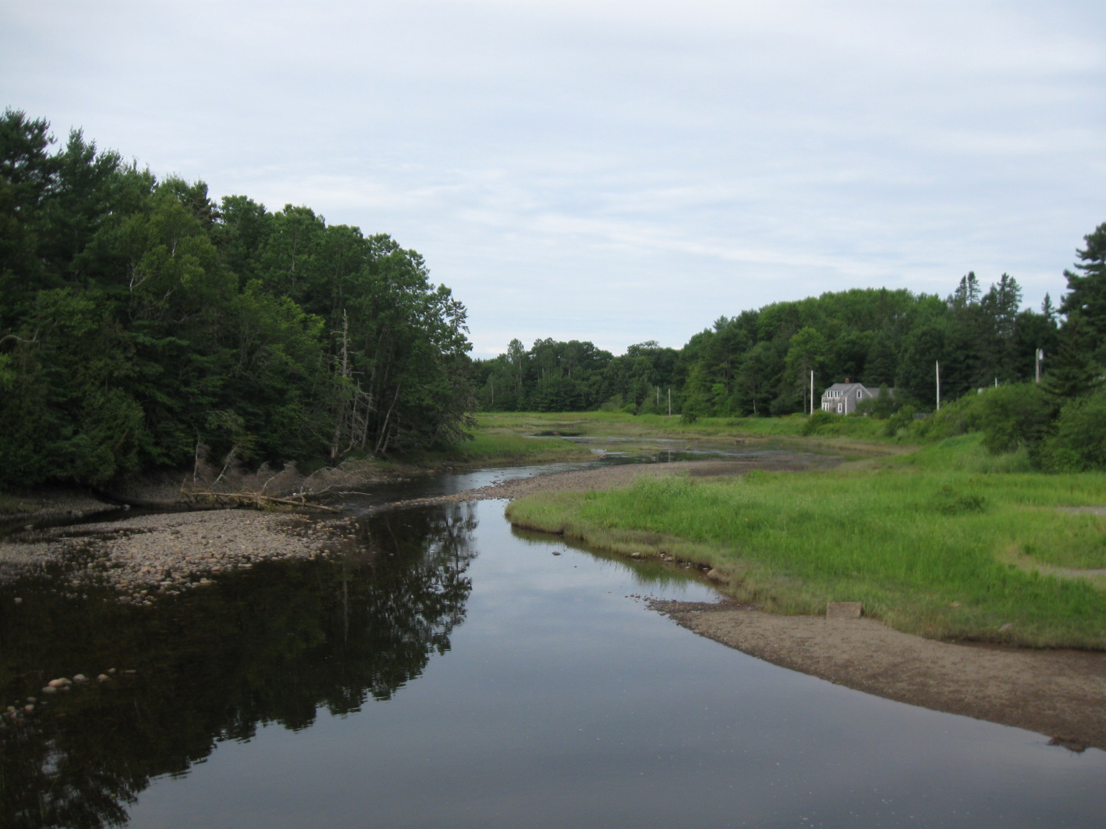 Pennamaquan River at old Route 1 crossing in center of Pembroke